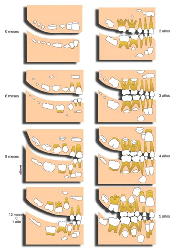 Temporal teeth development.